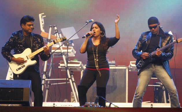 Harris Jayaraj Performing Live with his team at Coimbatore.